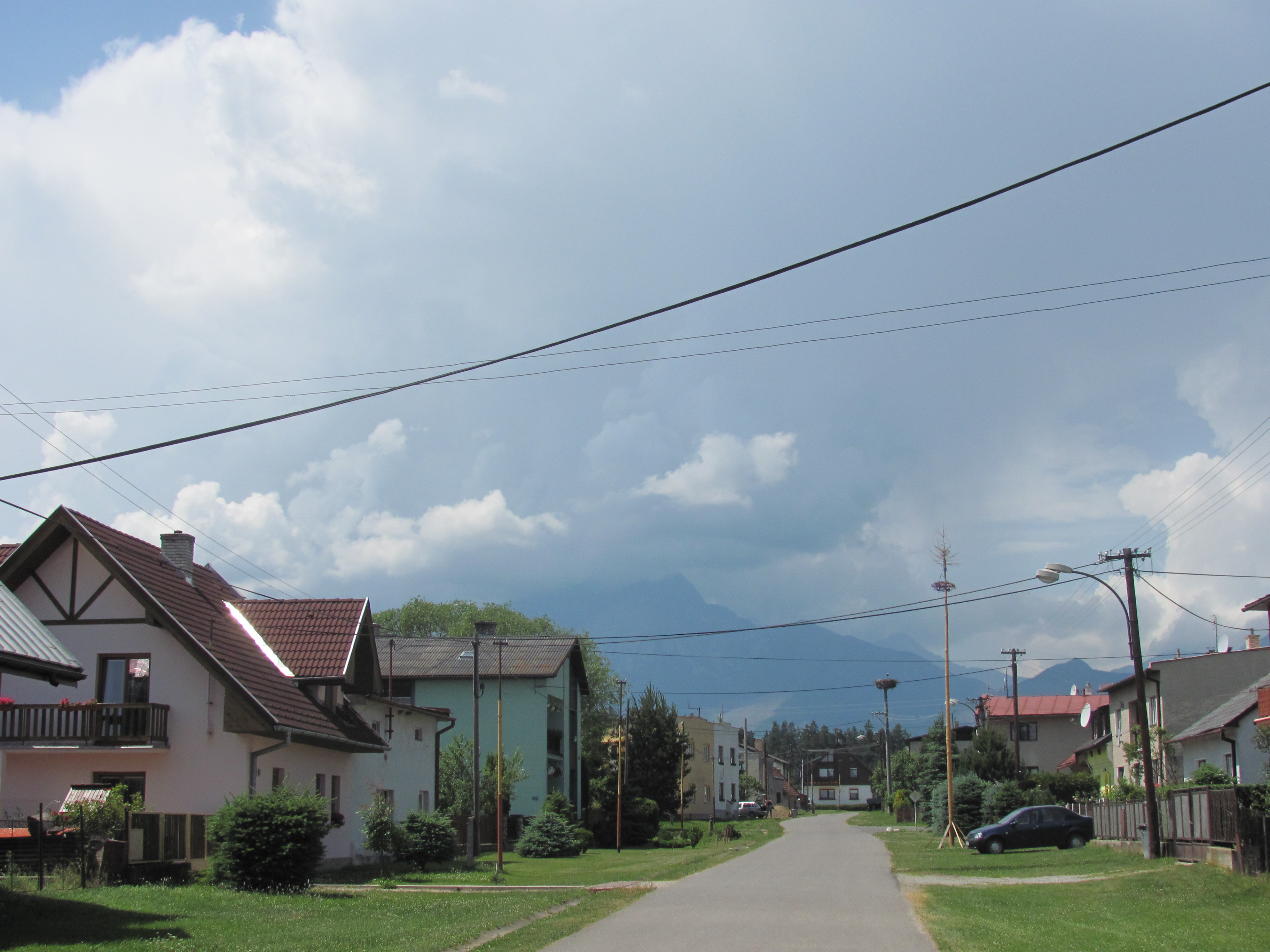 Mlynčeky village with Tatras in the background